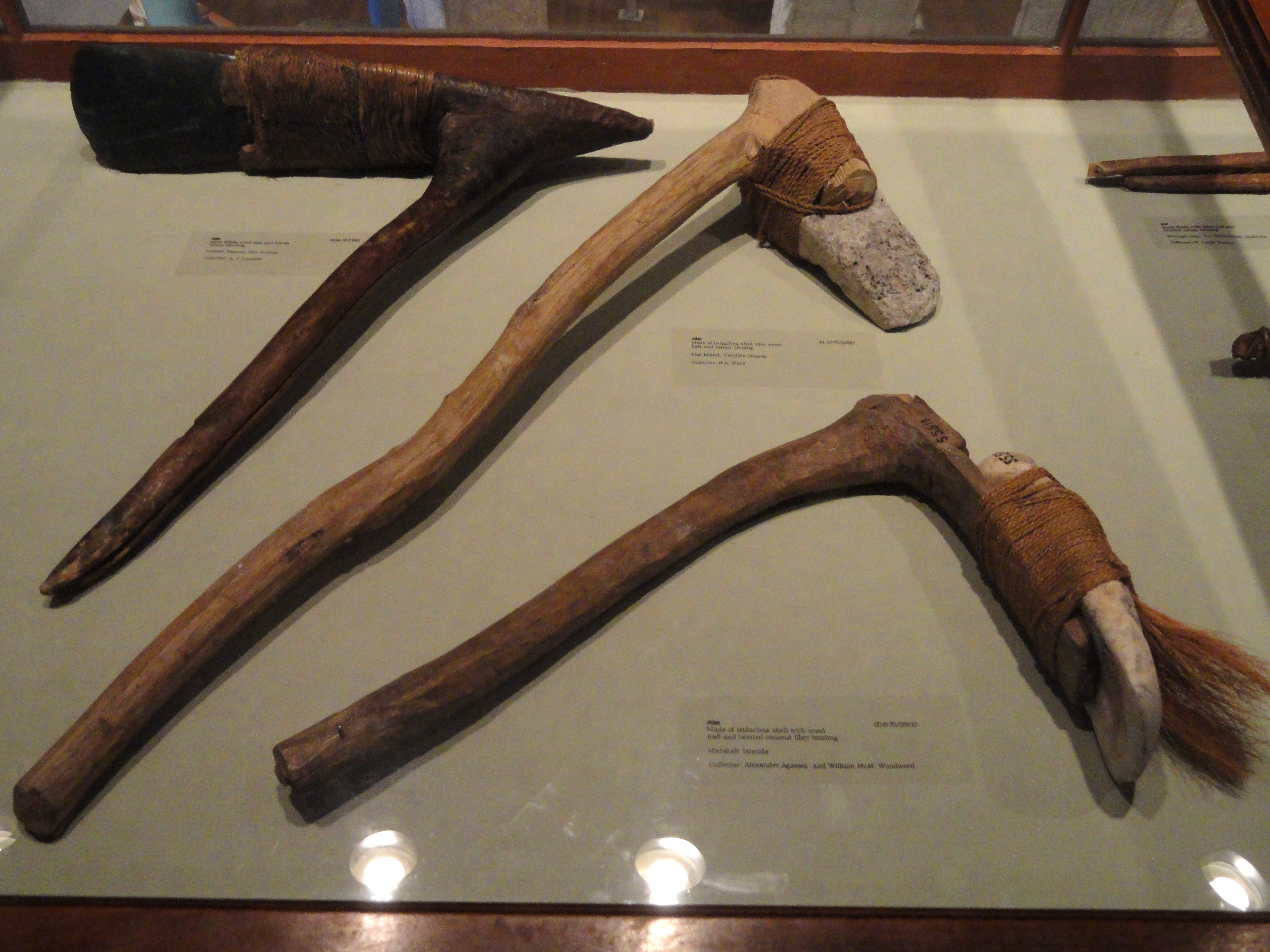 Adzes, Marshall and Yap Islands. Exhibit from the Pacific Collection, Peabody Museum, Harvard University, Cambridge, Massachusetts, USA. Photography was permitted without restriction; exhibit is old enough so that it is in the public domain.